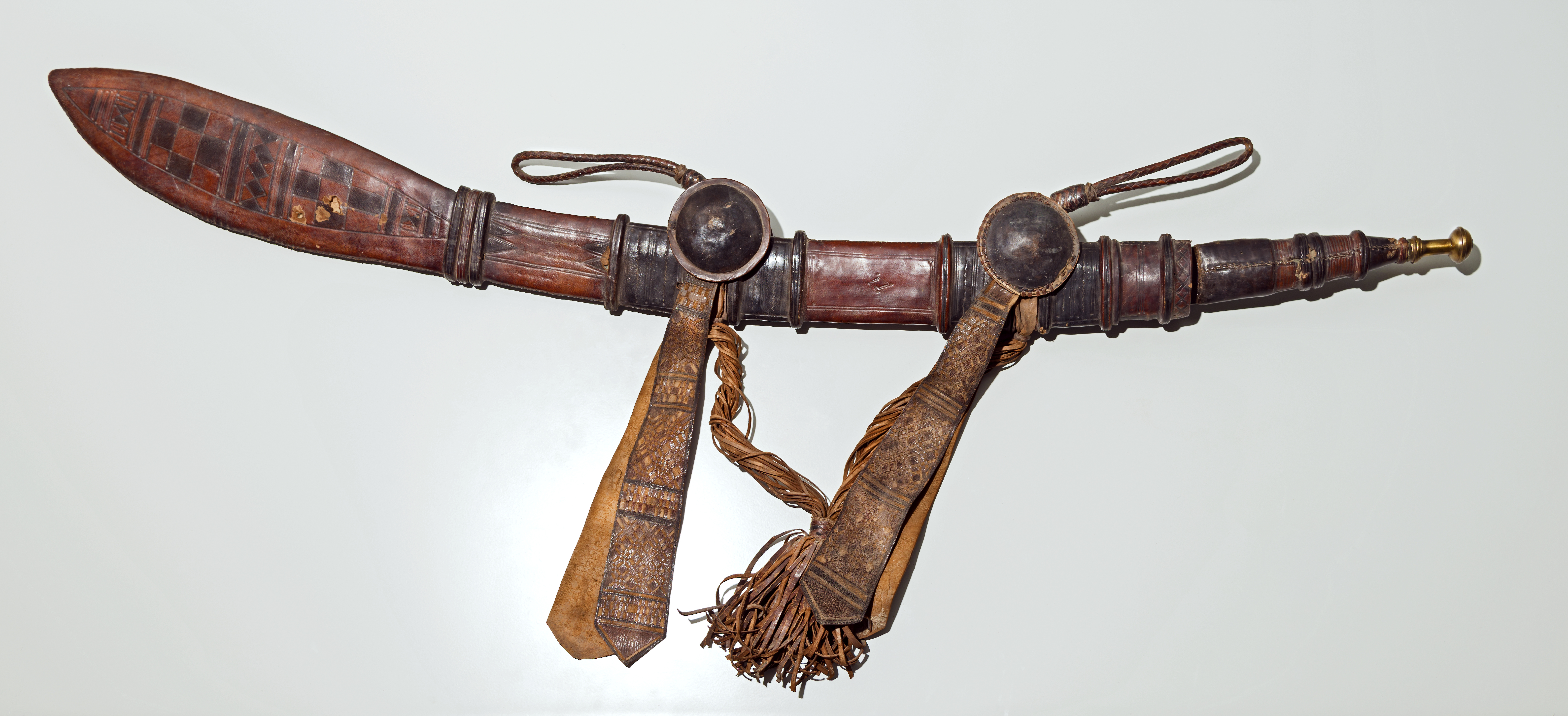 Saber and its sheath Population : Malinke people French Sudan (Mali, Senegal) Date of collection: the nineteenth century (4th Quarter) Collector and collection: Joseph Gallièni Collection Method: Military Shipping Materials: steel, natural fibers and leather Size : 88.5 x 46 x 7.5 cm